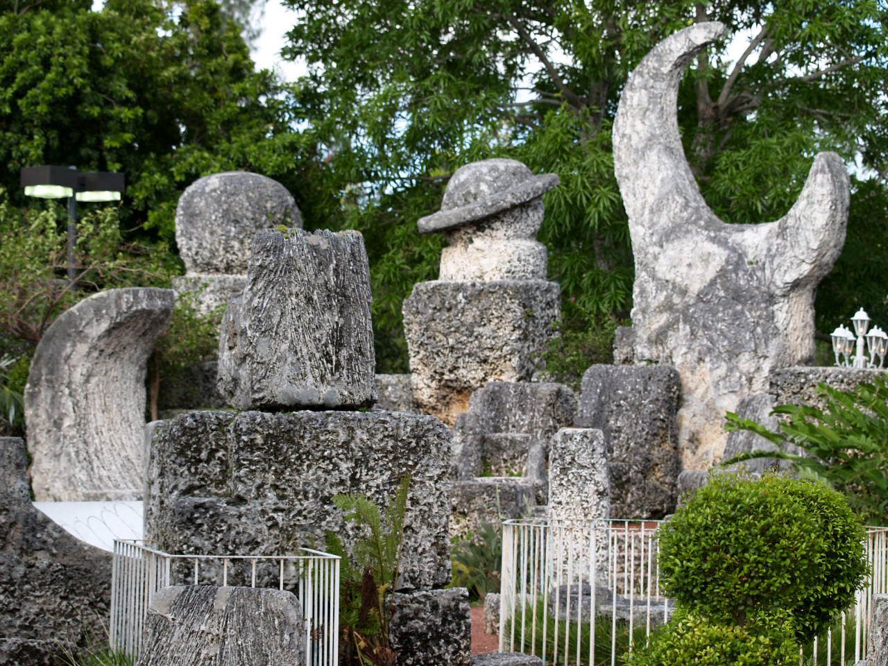 Coral Castle in Homestead, Florida